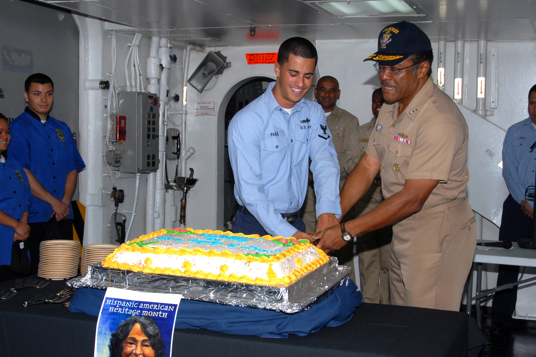 SAN DIEGO, Calif. (Oct. 8, 2009) Vice Adm. D.C. Curtis, commander, Naval Surface Forces U.S. Pacific Fleet, and Intelligence Specialist 3rd Class Ryan Paigo assign to the amphibious assault ship USS Boxer's (LHD 4) cut a cake during a ceremony in observance of Hispanic American Heritage Month. (U.S. Navy photo by Mass Communications Specialist 2nd Class Jeff Hopkins/Released)